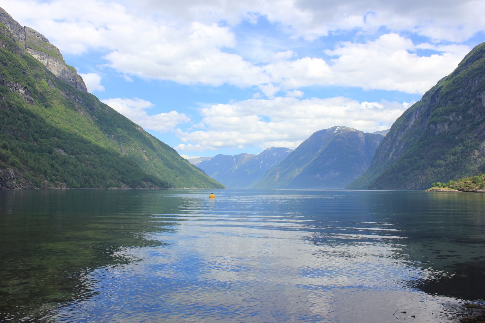 The Sunnylvsfjorden seen from Hellesylt.